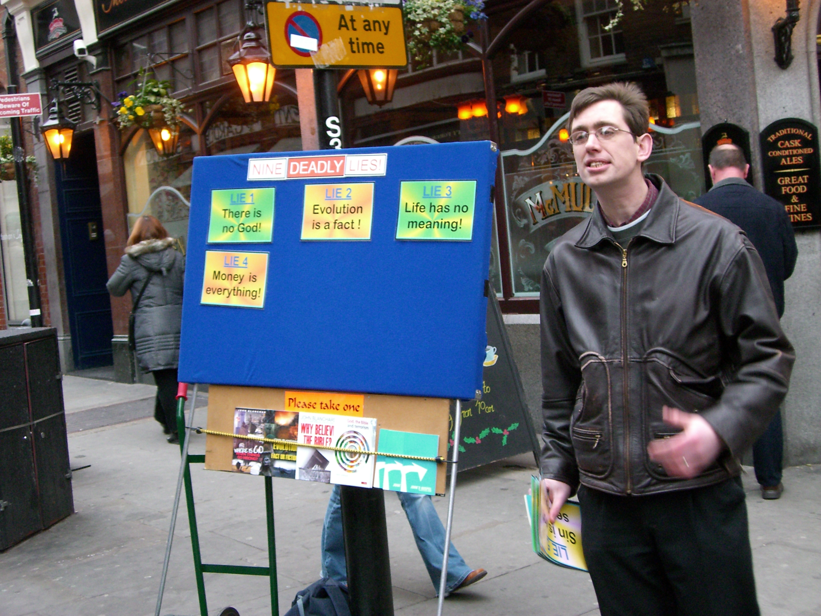 Open-air preaching in James Street, Covent Garden. The preacher is using an unusual style, he has his main points written on laminated plastic cards and is sticking them on a board. The heading on his message reads: "Nine deadly lies." At this point in the sermon 4 have been listed: Lie 1: There is no God! Lie 2: Evolution is a fact! Lie 3: Life has no meaning! Lie 4: Money is everything! Photo taken by User:Edward on 25th March 2006 taken using a Casio EX-S600.